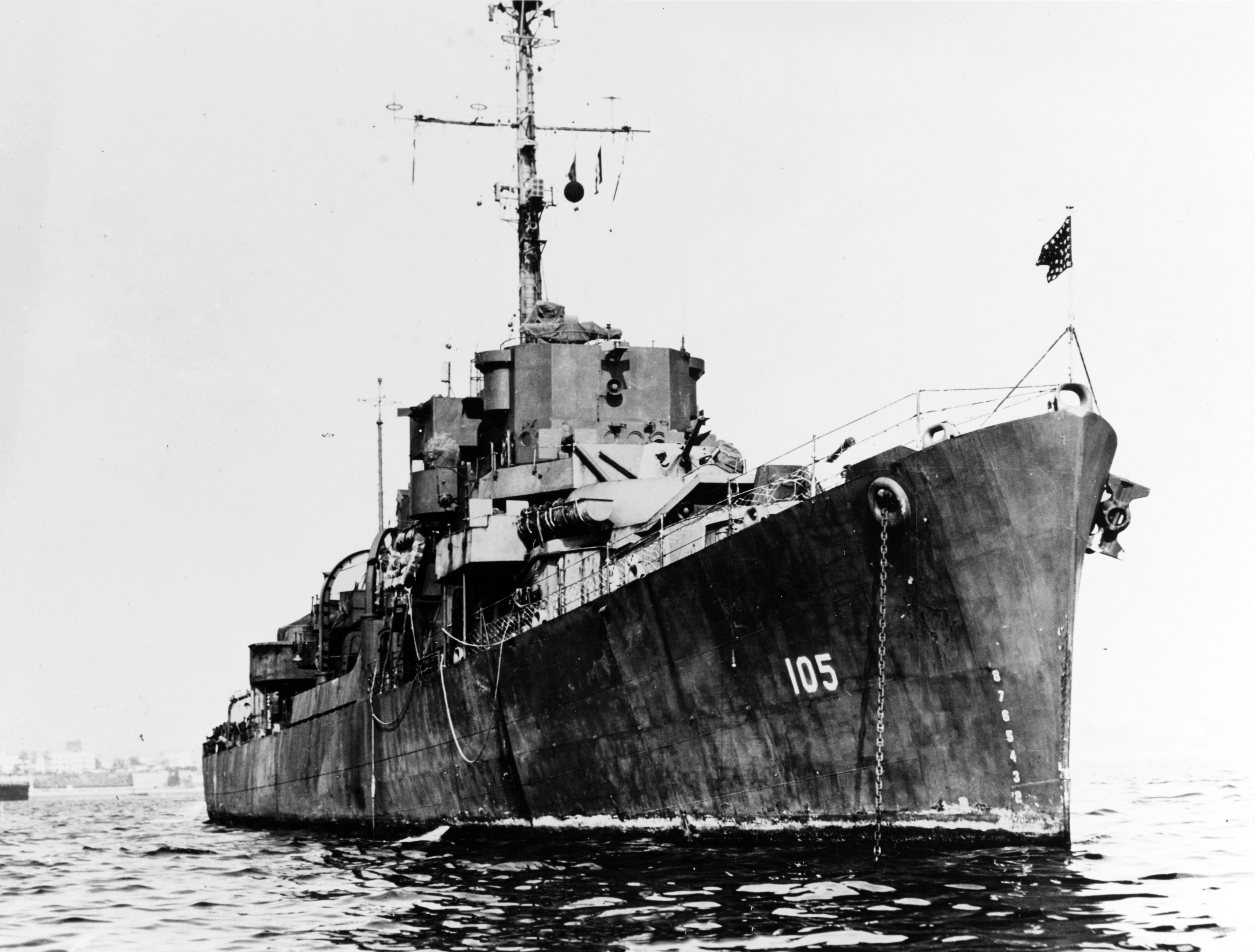 The U.S. Navy destroyer escort USS Burrows (DE-105) at anchor, circa 1945-1946.